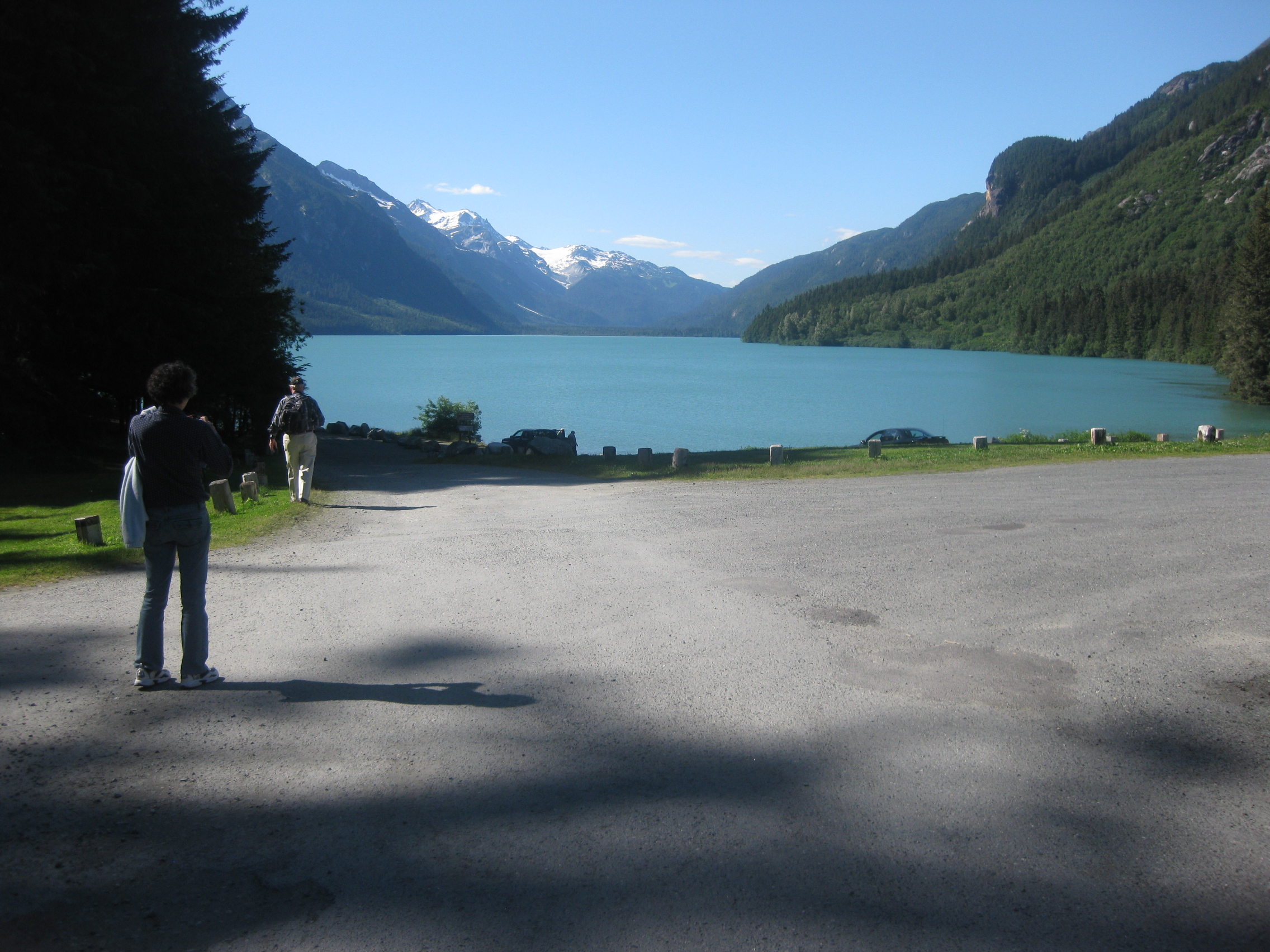 Camping grounds near Chilkoot Lake